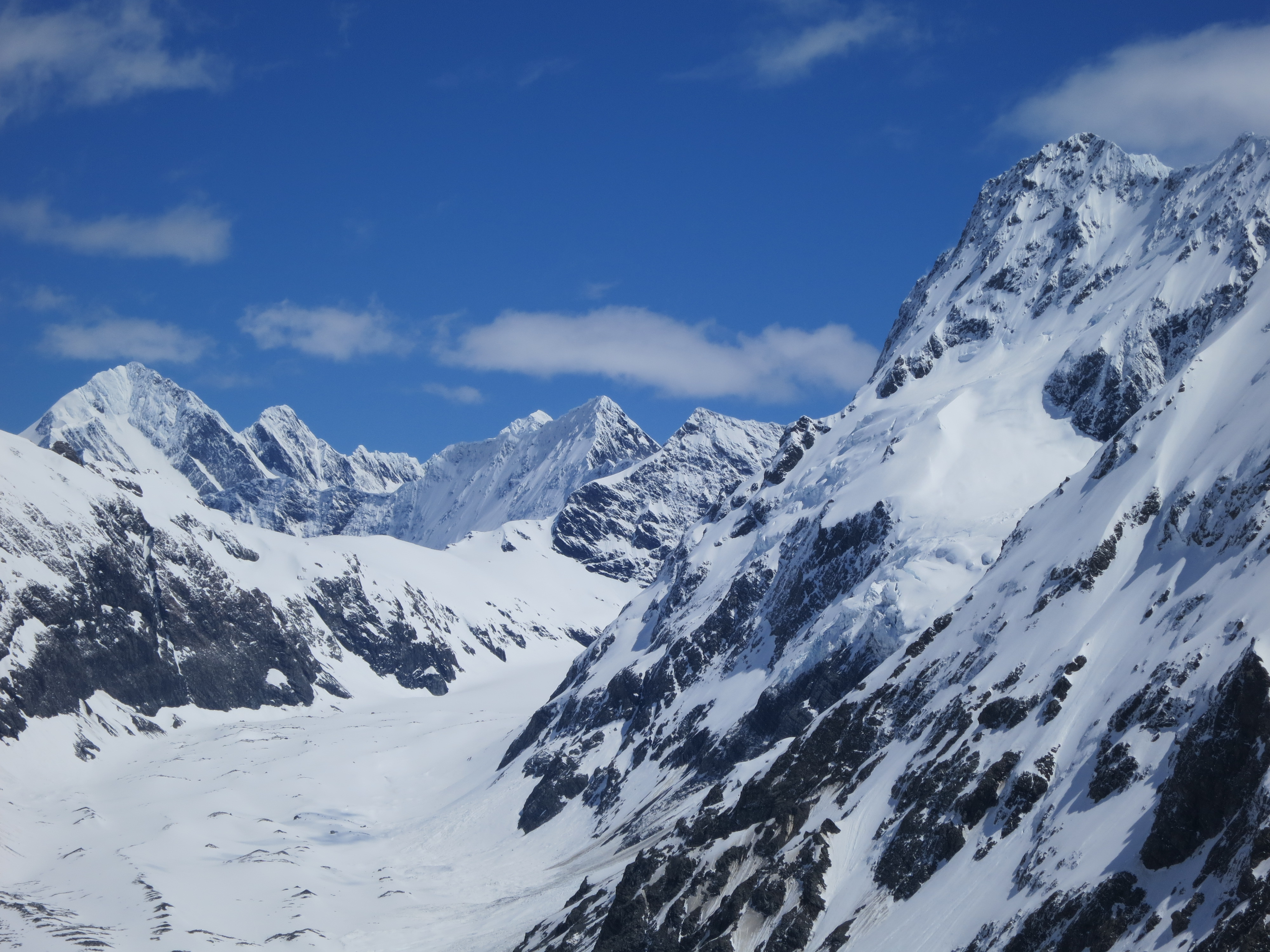 Snow-covered upper Mueller Glacier in Mount Cook National Park from Mueller Hut, New Zealand